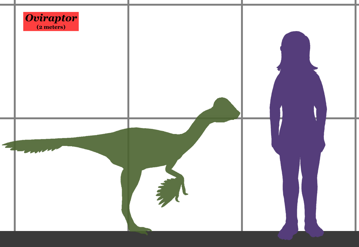 Size comparison between the dinosaur Oviraptor and a human.